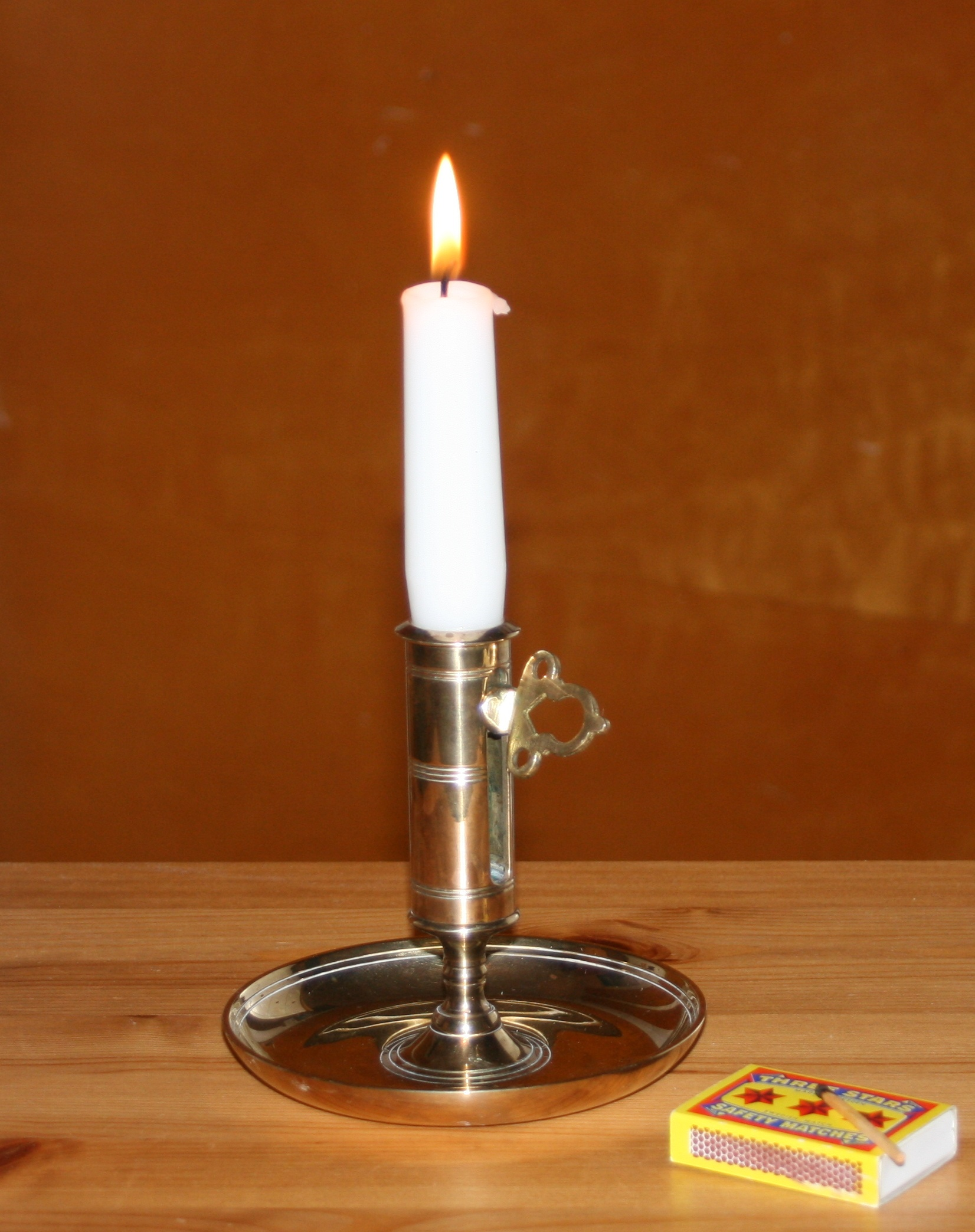 Hogscraper office candlestick in brass, made by Skultuna mässingsbruk, Sweden.